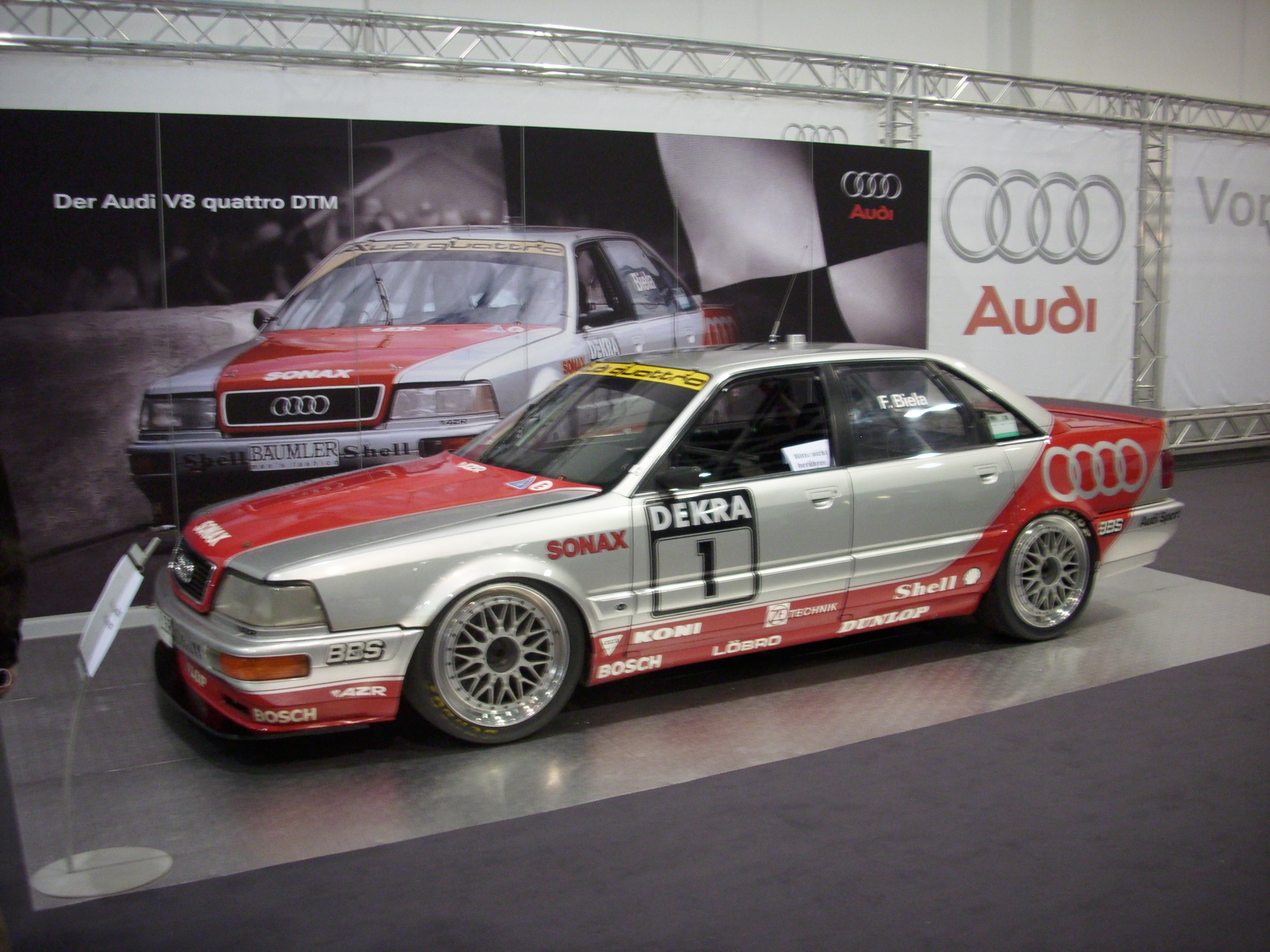 A real DTM car, driven by Frank Biela, at the Motorwelt Berlin (100 years anniversary of Audi).